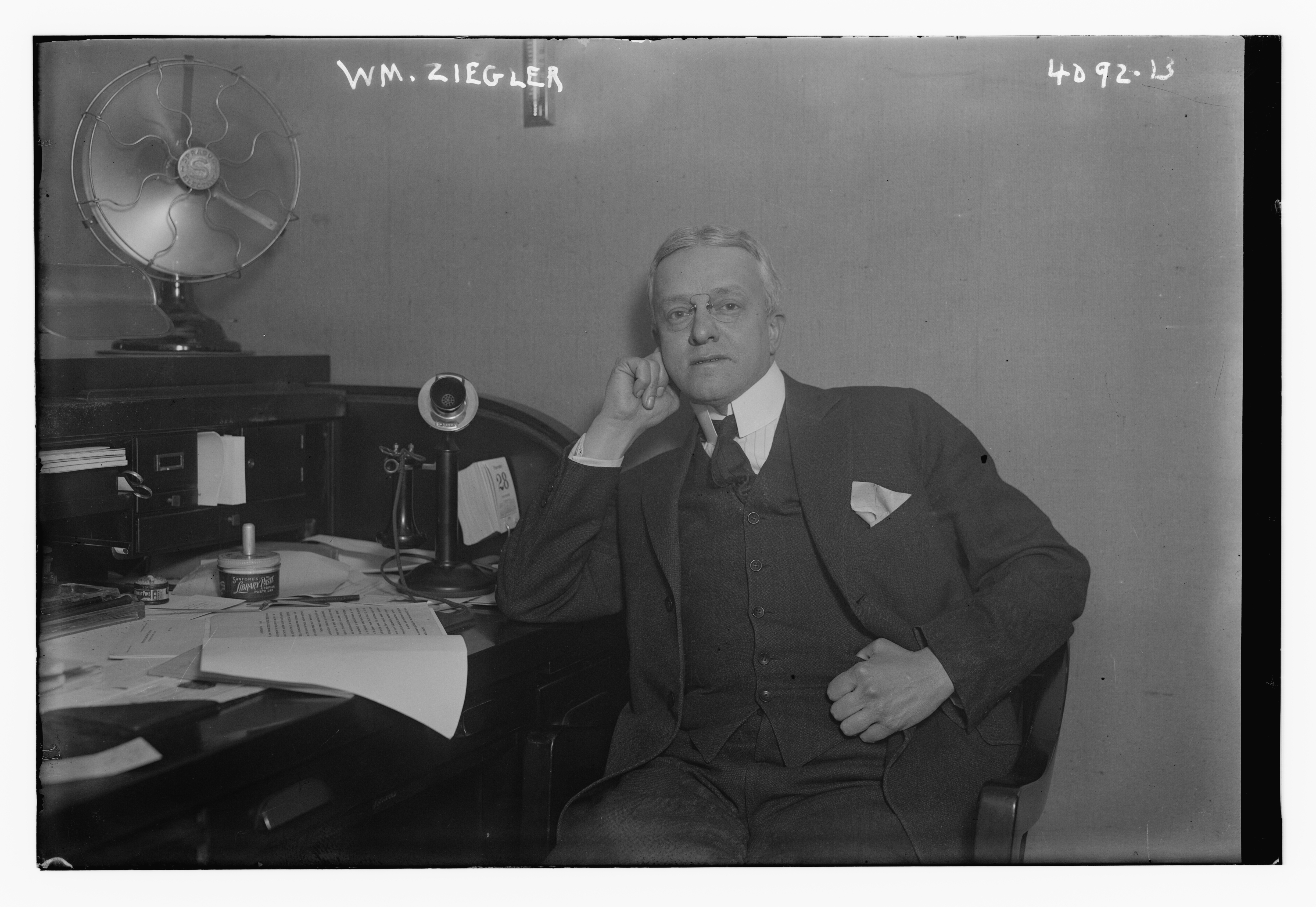 William Ziegler in 1916